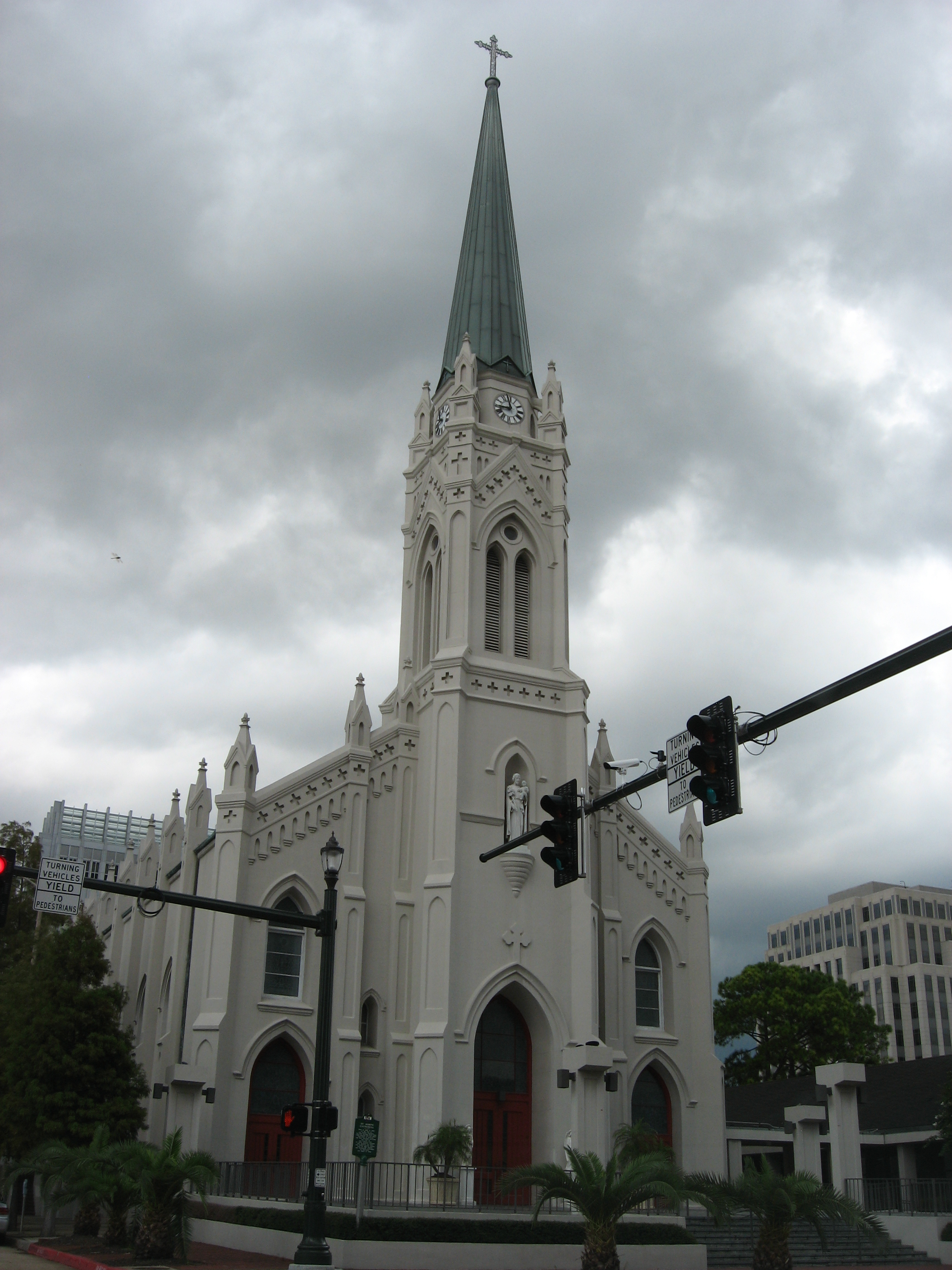 St. Joseph Cathedral, Baton Rouge, Louisiana